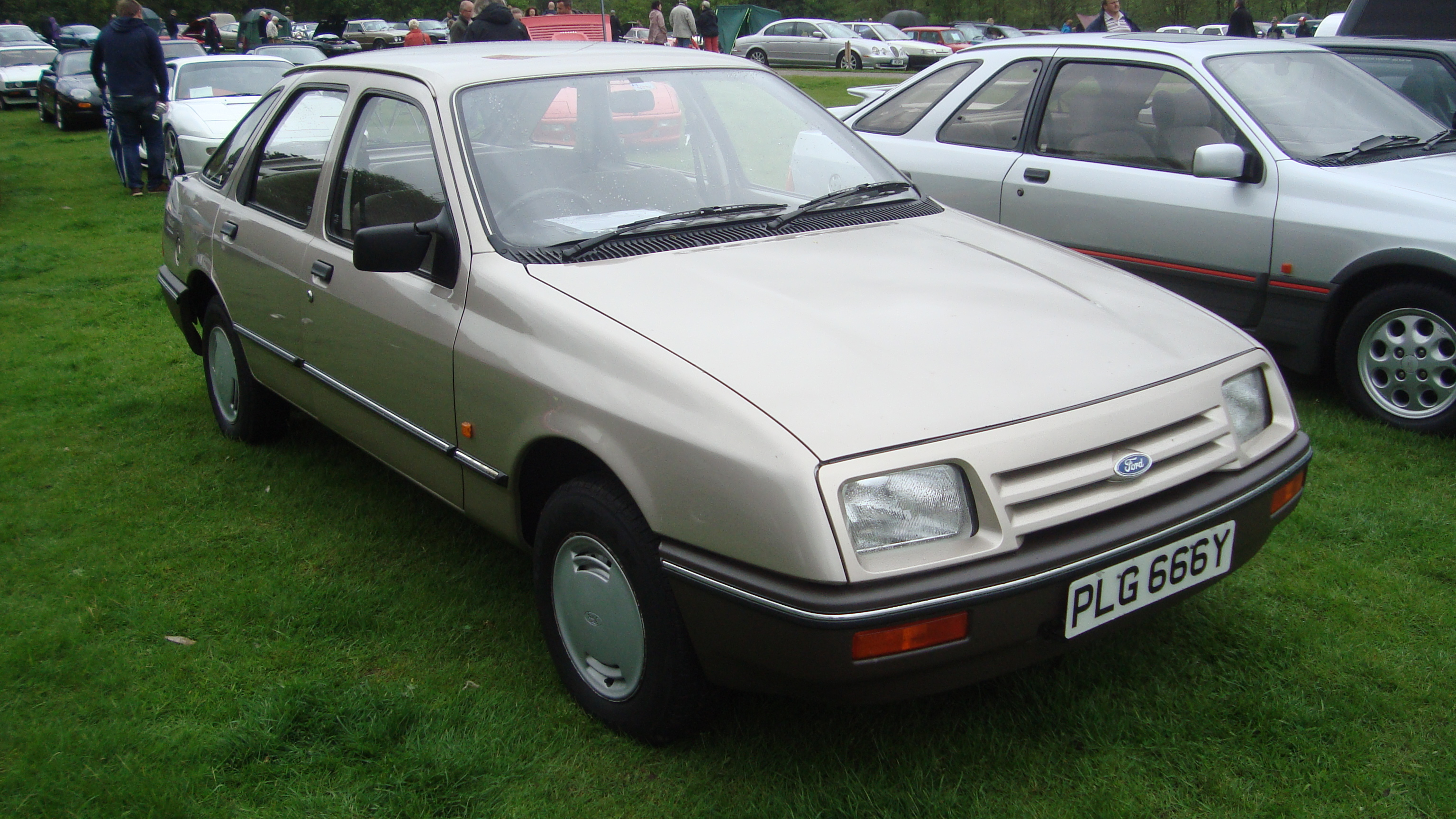 My favourite car on show. It was a fleet car at a steel firm and when one of the employees retired he decided to buy the as he was very fond of it. He passed away in 1993 and the car sat in the garage from then until 2013 when it was rescued